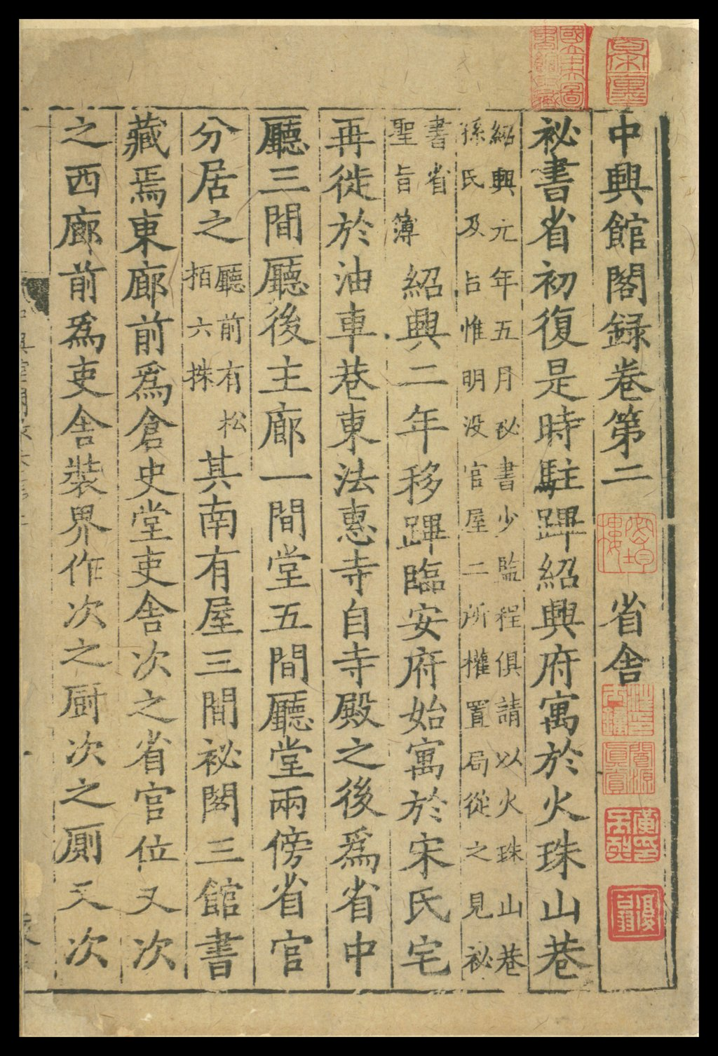 This work is an account of the Imperial Library (Zhong xing guan) during the Southern Song dynasty (1127–1279). It was compiled by Chen Gui (1128–1203), who received the jin shi degree in 1150 and became an official at the library. Issued circa 1265–74, it traces the history of the Imperial Library from the beginning of the Southern Song. The work records the names of library officials, their stipends, their positions, and their daily activities; and provides information on the library’s basic functions, including book acquisition and arranging, collection maintenance, as well as editing, compilation, and printing. This copy is missing one volume on the history of the library. It is accompanied by a 10-juan supplement, which lacks the volume on the stipends. Juans 7 and 8 of the supplement provide the names of officials and titles up to the year of 1269, but they were printed using a different type, probably during the early years of the Yuan dynasty. This work is included in Si ku quan shu (The Siku Collection), which was compiled during the Qing dynasty and used, as its source, the Ming encyclopedia Yongle da dian (published during the Yongle reign of 1403–24). The book was rarely seen after the Ming dynasty. Some hand-copied editions could be found in private collections, but they often contained errors. This copy was previously in the collection of Huang Raopu (1763–1825), a bibliophile and collector of Song edition books. It later it went to the collections of five other famous collectors before coming into the possession of the National Central Library. The work is similar to another compilation, Lin tai gu shi (Stories of the Imperial Library), by Cheng Ju (1078–1144). Archives; Libraries; Song dynasty, 960-1279